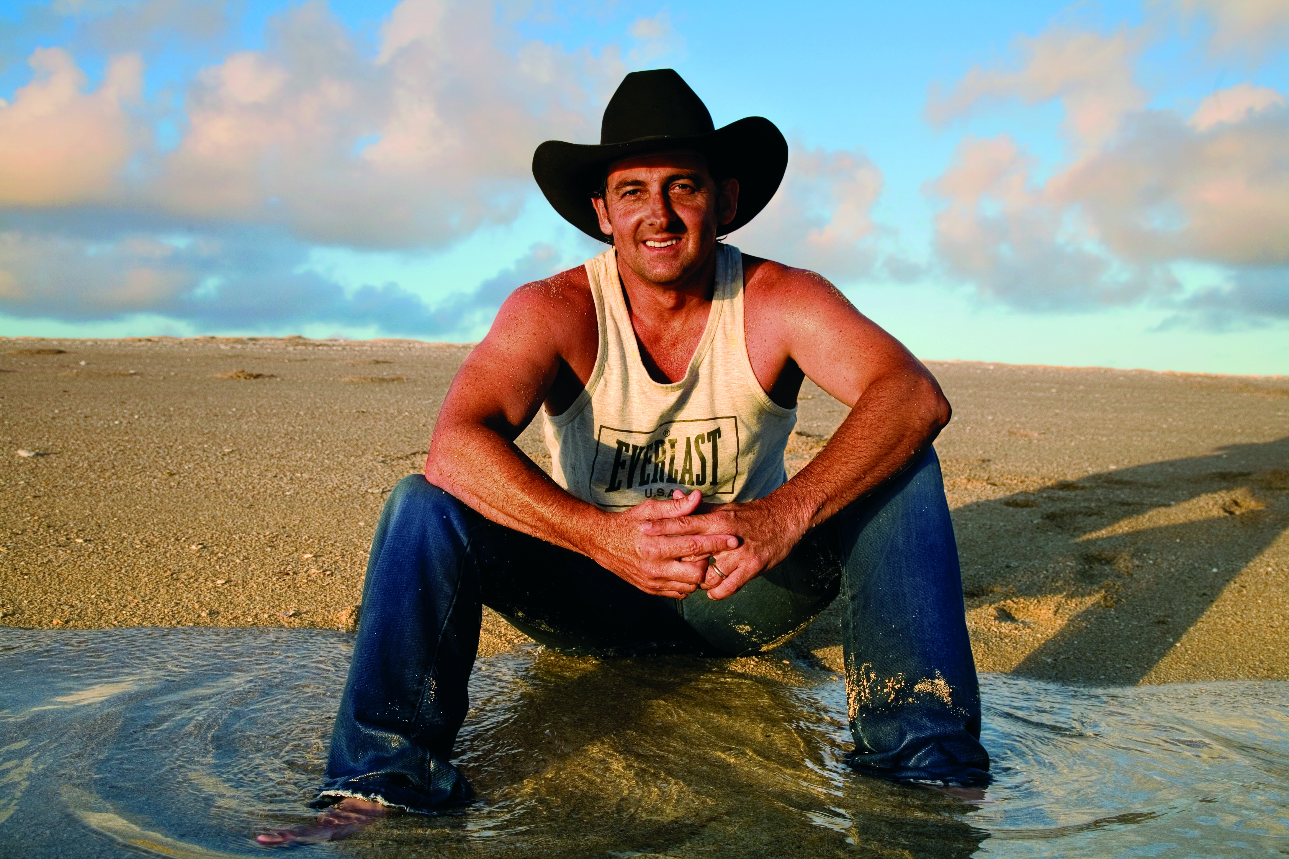 Australian country singer Lee Kernaghan